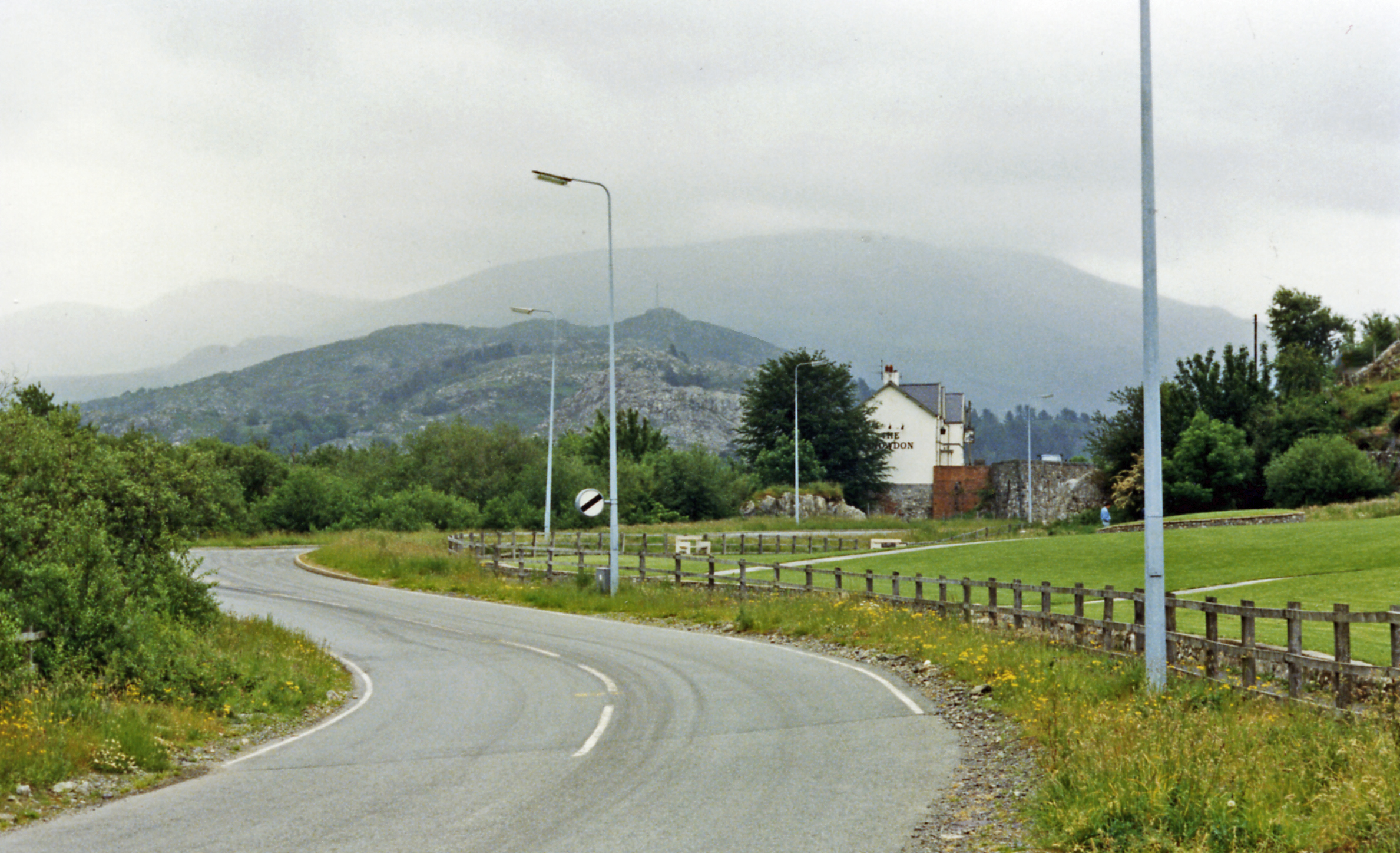 Near site of Cwm-y-glo station towards Llanberis Pass. View SE on A4086 near Llyn Padarn, the railway having been off frame to the left: ex-LNW Caernarvon - Llanberis branch. The station was closed to regular passenger services from 22/9/30 (goods 29/6/64), but the excursions ran to Llanberis until 7/9/62 (goods 7/12/64). This is the way to Snowdon and its Mountain Railway - off to the right: in the centre background is Elidir Fawr (3,026 ft.).